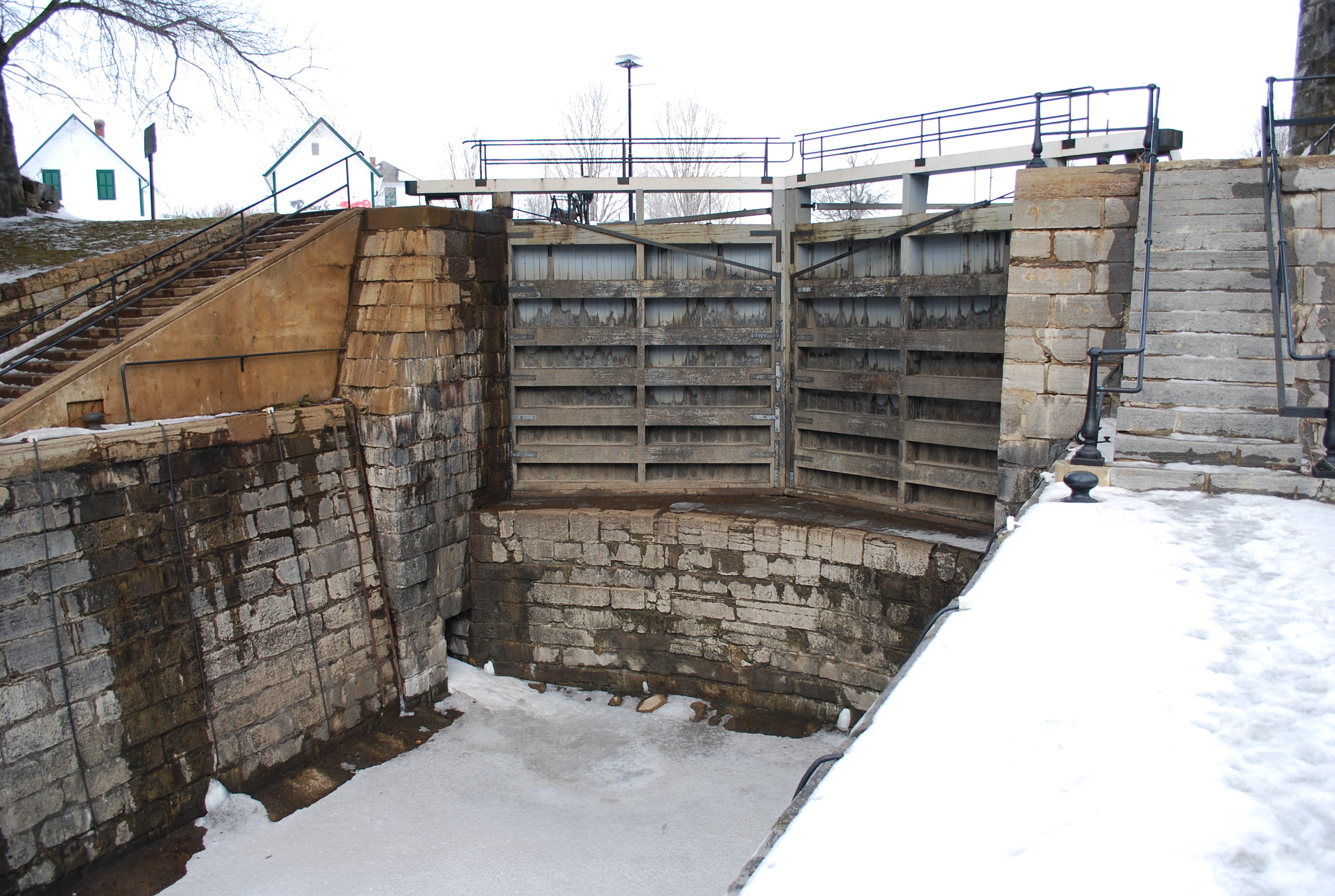 Lock 47 and its upper lock gate at Kingston Mills, one of the lockstations of the Rideau Canal.